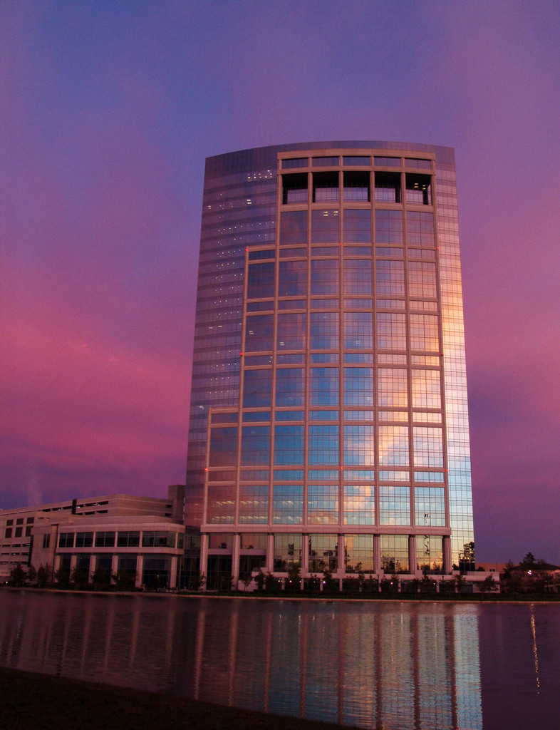 Anadarko Tower, as seen at sunrise.